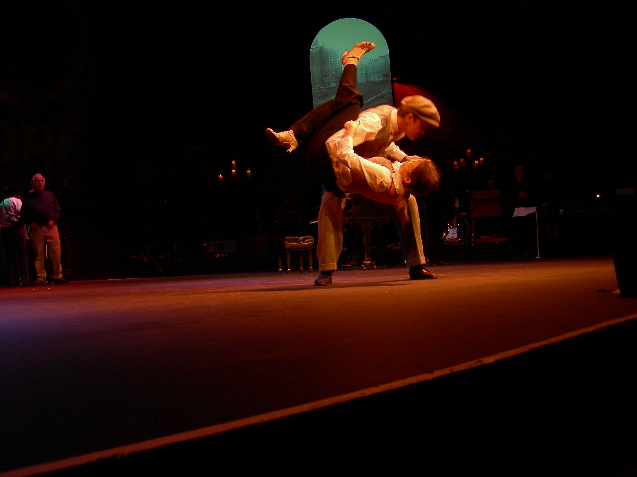 Peter Loggins and Mia Goldsmith swing dancing at the Moore 100 Open House Celebration, celebration of the 100th anniversary of the Moore Theatre, Seattle, Washington.